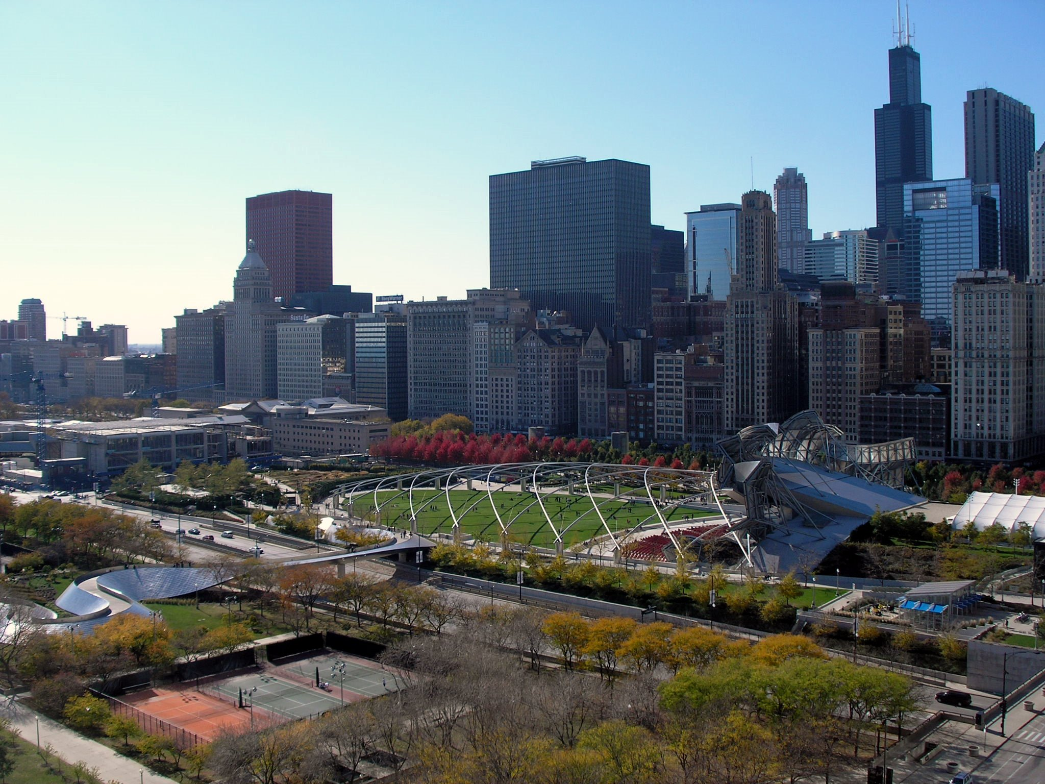 View of Chicago, United States from the 340 on the Park skyscraper.